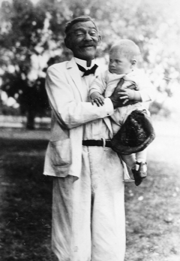 American mathematician George Bruce Halsted holding his grandson, Bruce Cushman Halsted, Greeley, Colorado, 1920.